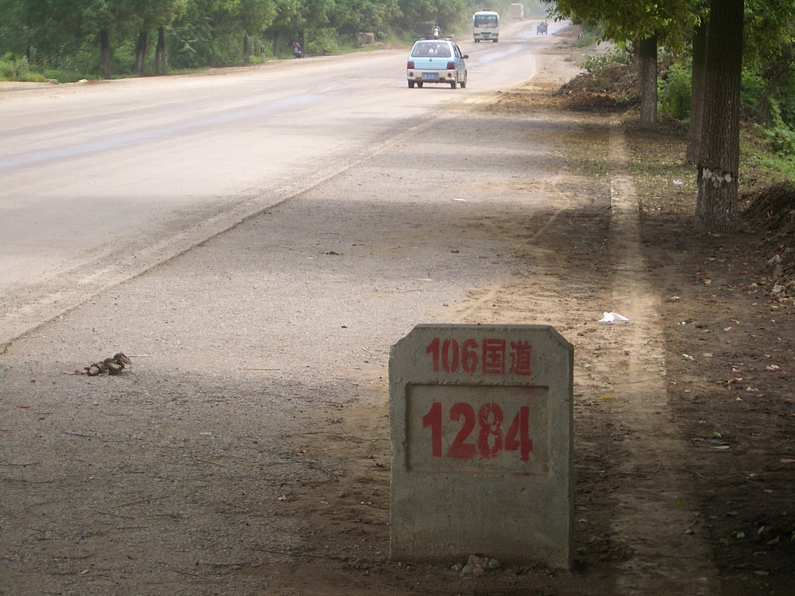 A kilometer marker (1284 km from Beijing) on the National Hwy G106 (which is also G316) just northwest of the urban core of Daye Town (Huangshi CIty, Hubei)